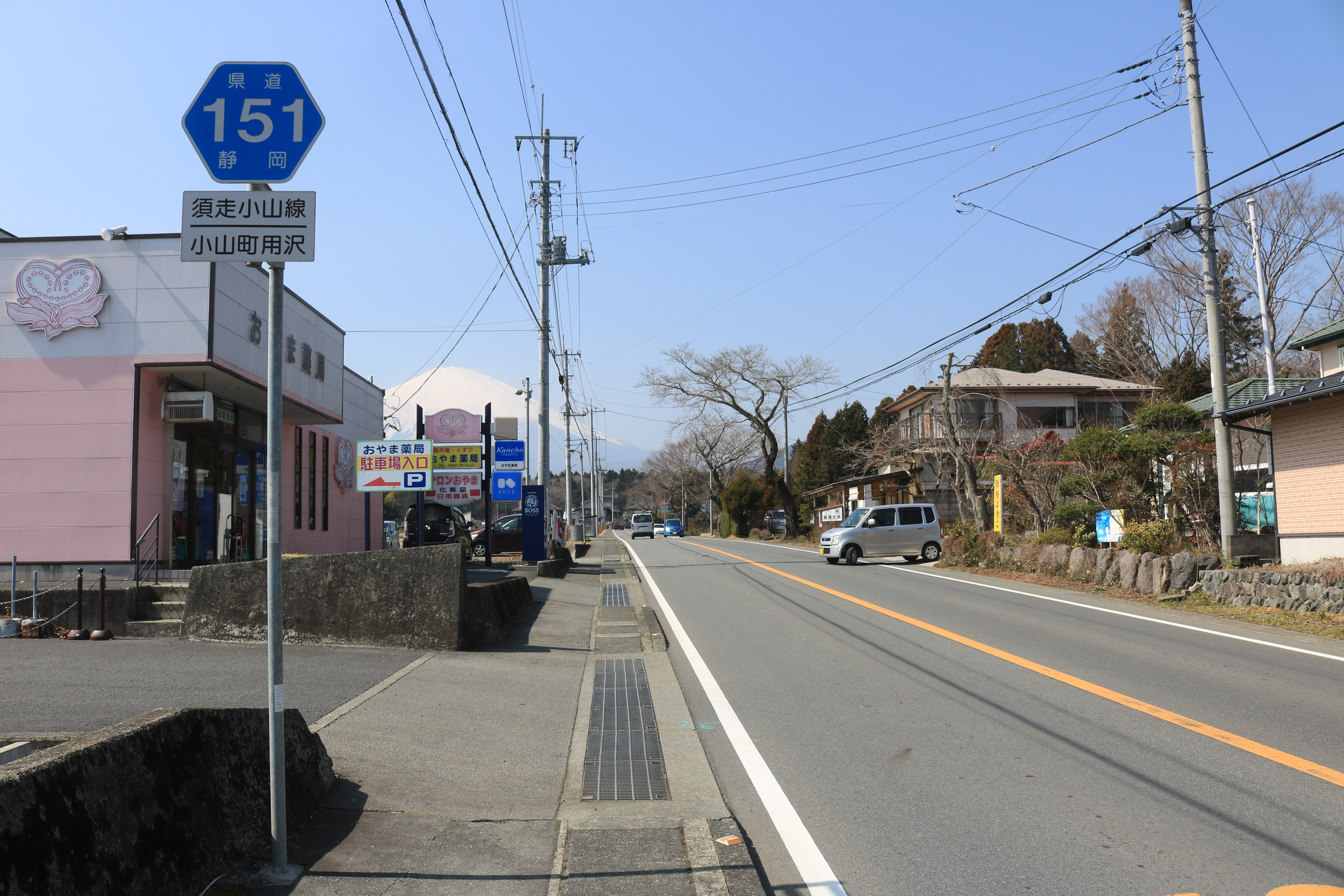 Shizuoka Prefectural Road Route 151 and Mount Fuji in Yosawa, Oyama, Shizuoka Prefecture, Japan.